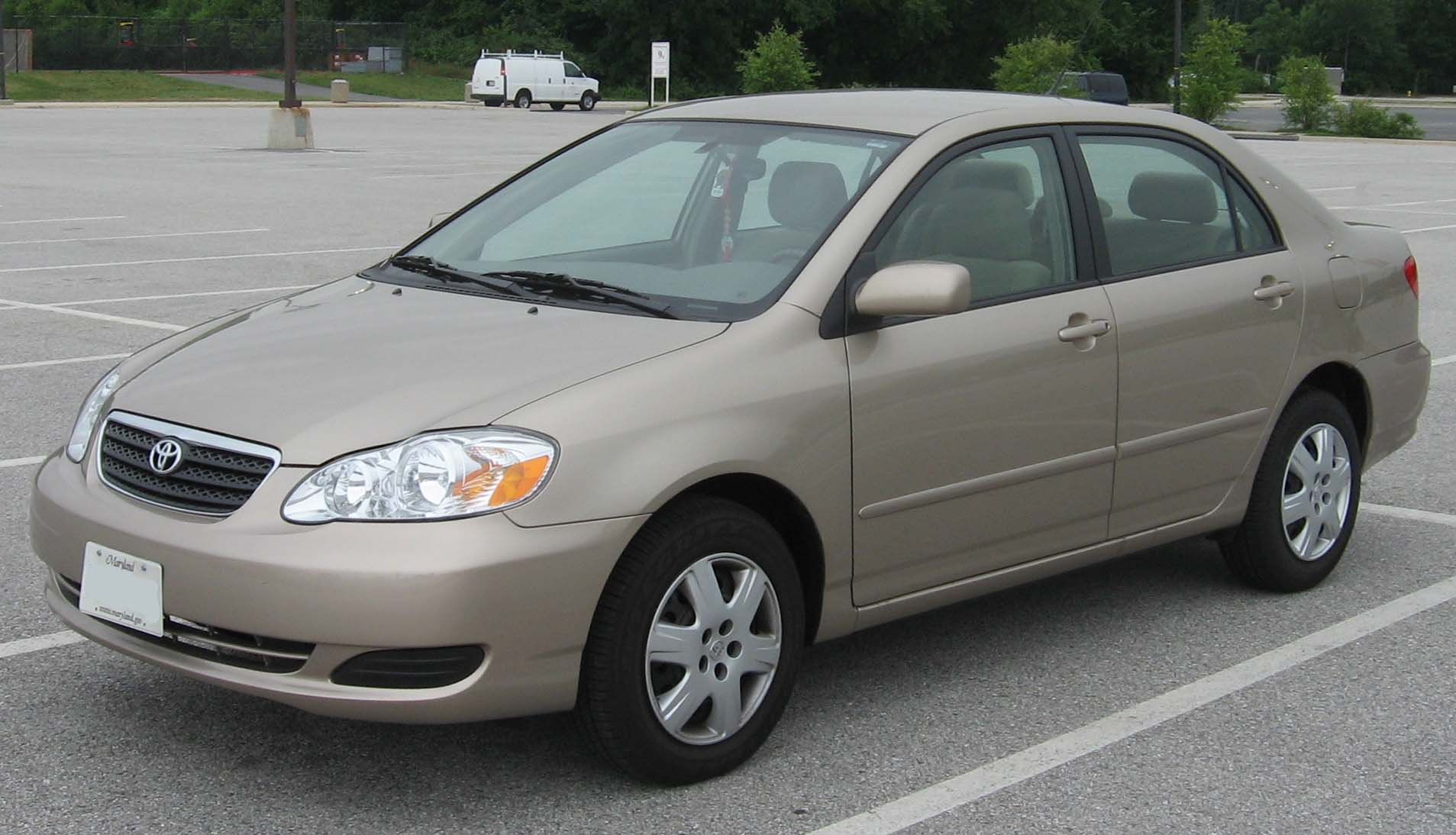 2005-2007 Toyota Corolla photographed in College Park, Maryland, USA.